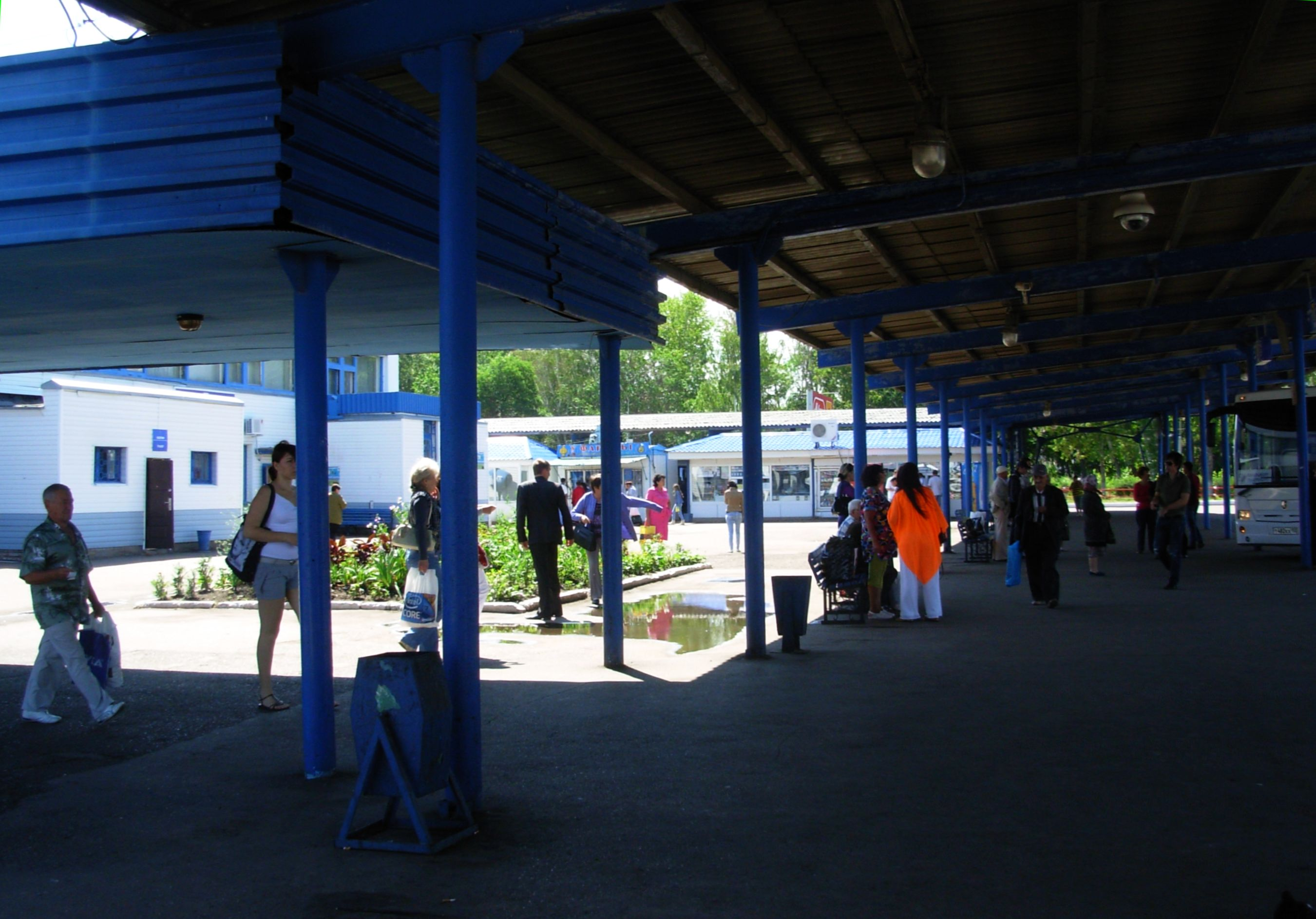 Stations (Salavat)